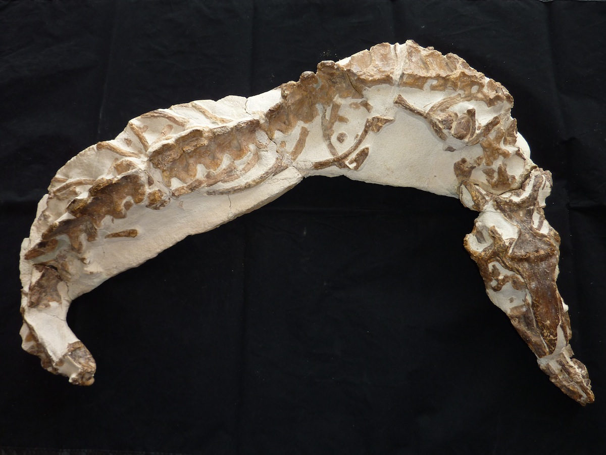 A skeleton of a tethysaurus prepared by Fossil Shack